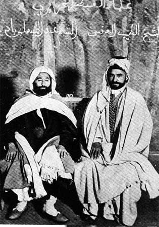 Abdelhamid Ben Badis (on the left) and Tayeb El Oqbi (on the right) of the Association des Oulémas Musulmans Algériens (AOMA)